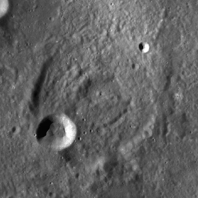 Descartes crater, on the moon. Lunar Reconnaissance Orbiter Wide Angle Camera (WAC) mosaic.